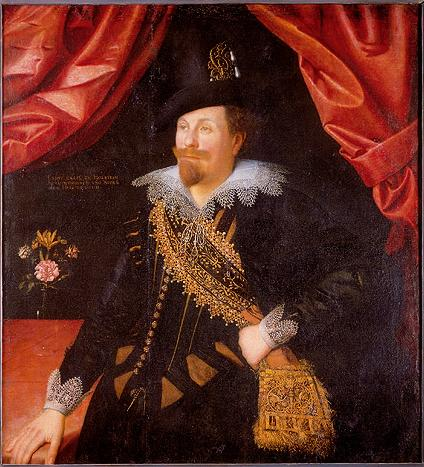 Portrait of Prince Ernst of Schaumburg (1559-1622)